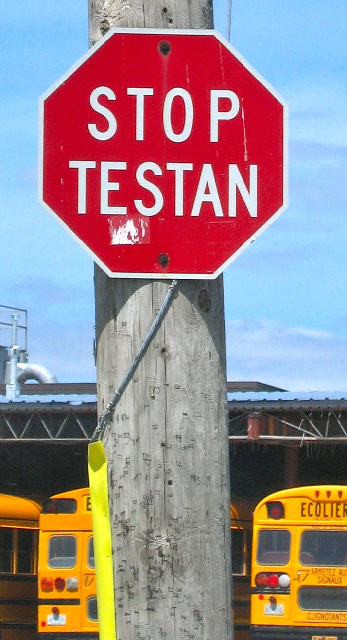 While Quebec is ostensibly bilingual yet basically French, the Kahnawake Reserve is sovereign Indian territory and traffic signage follows local tradition only.